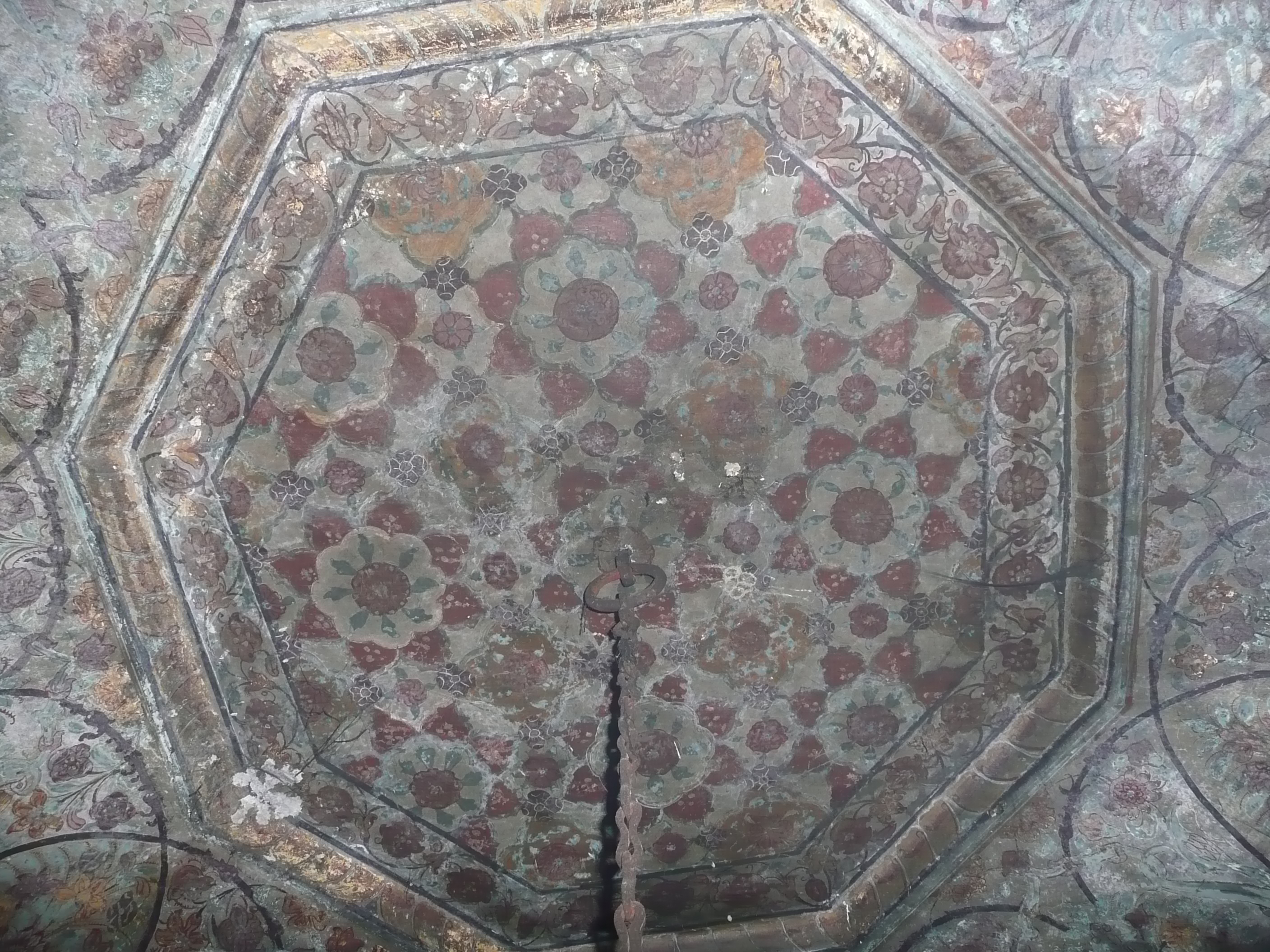 Shiva Mandir Ancient Temple roof painting with Natural colours, at Tandon Mohalla, Payal, Ludhiana, Punjab, India